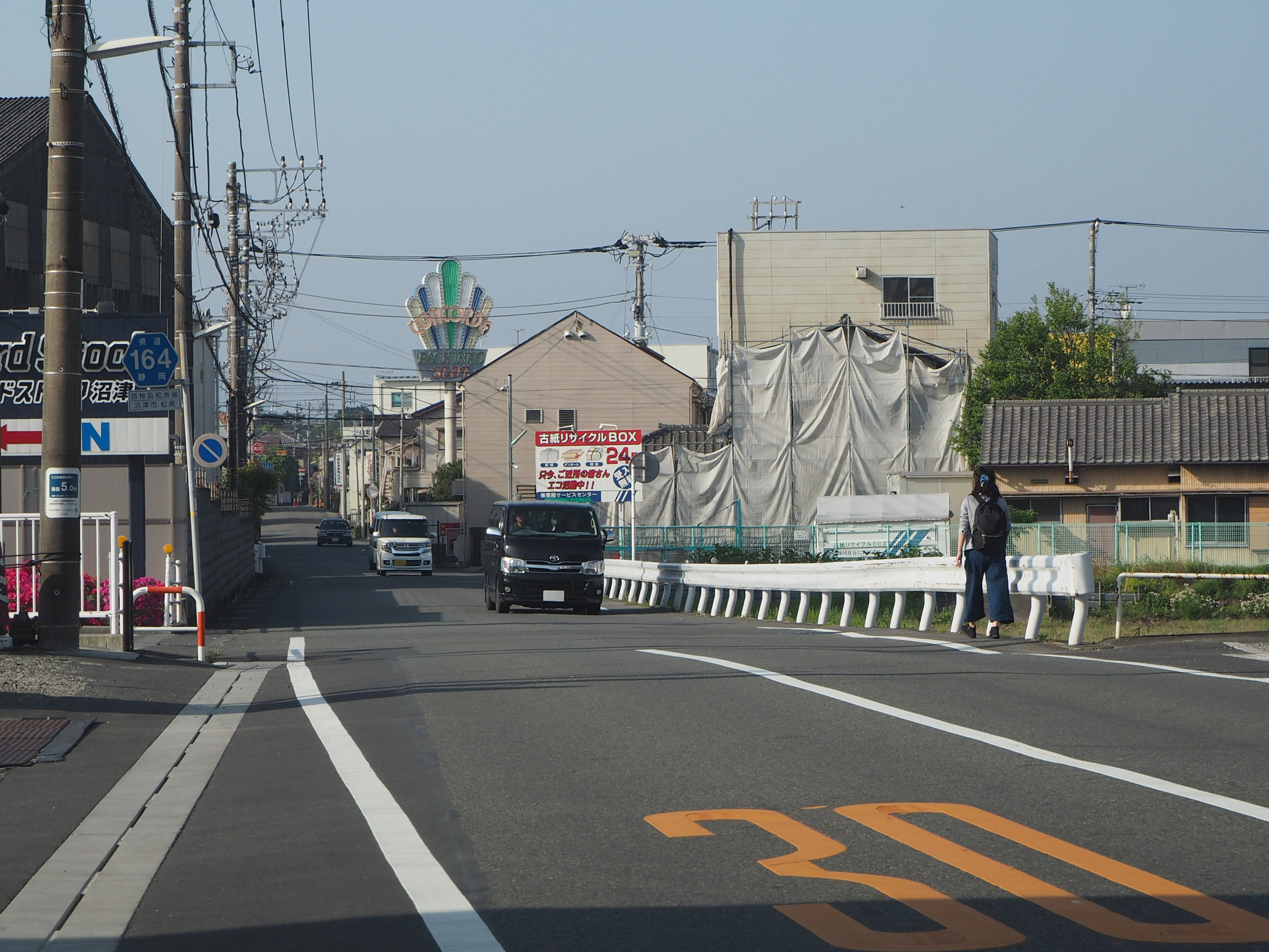 Shizuoka prefectural road Route 164